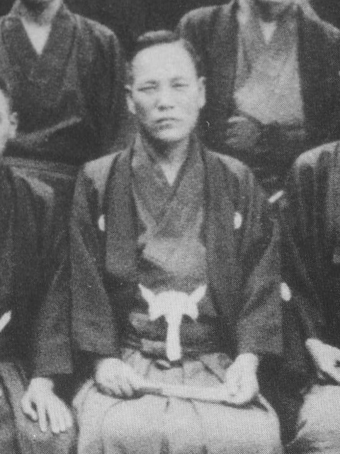 Kingo Fujiuchi (Shogi players). taken in 1939.